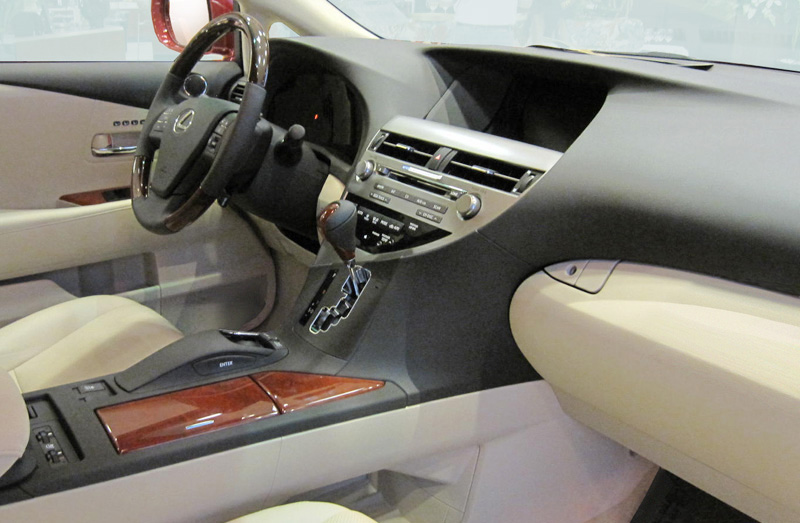 3rd gen RX